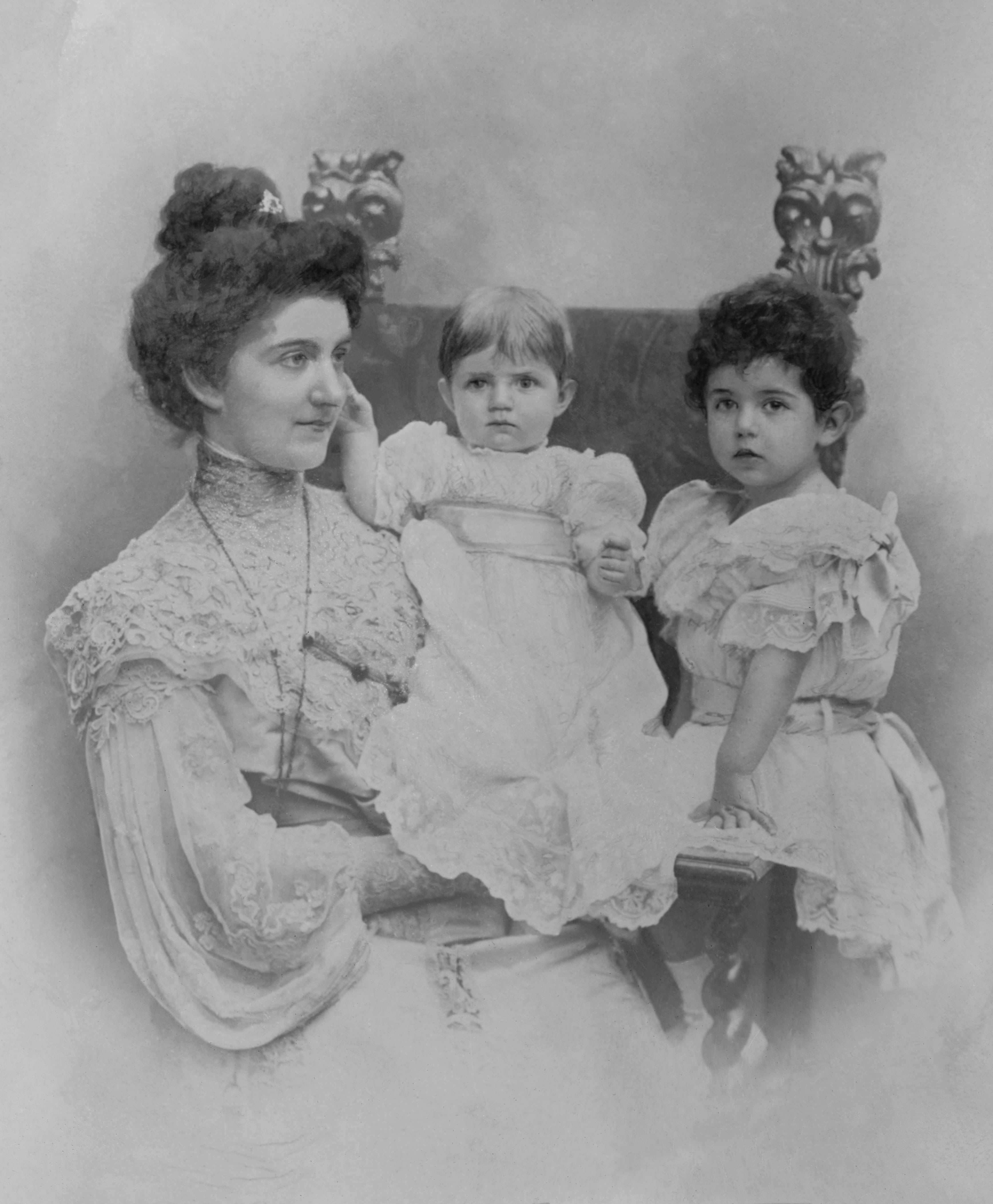 Queen Elena of Italy with her two eldest daughters Yolanda and Mafalda.